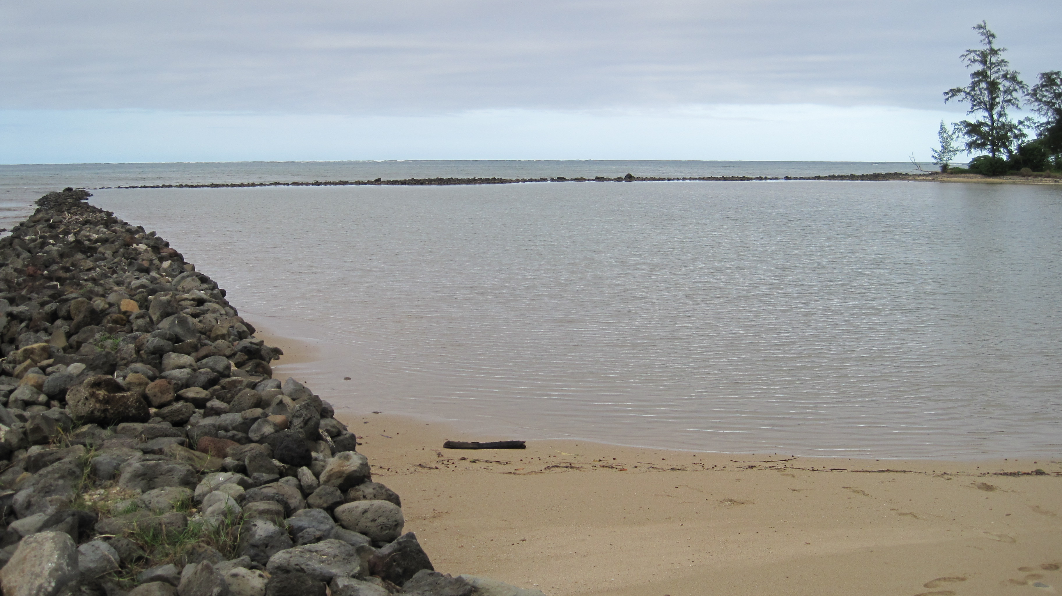 Huilua Fishpond walls, Kaneohe, Oahu, a National Historic Landmark on National Register of Historic Places